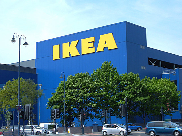 IKEA, Ashton-under-Lyne This recent addition to Greater Manchester's retail offer is located at the junction of Oldham Road and Wellington Road.